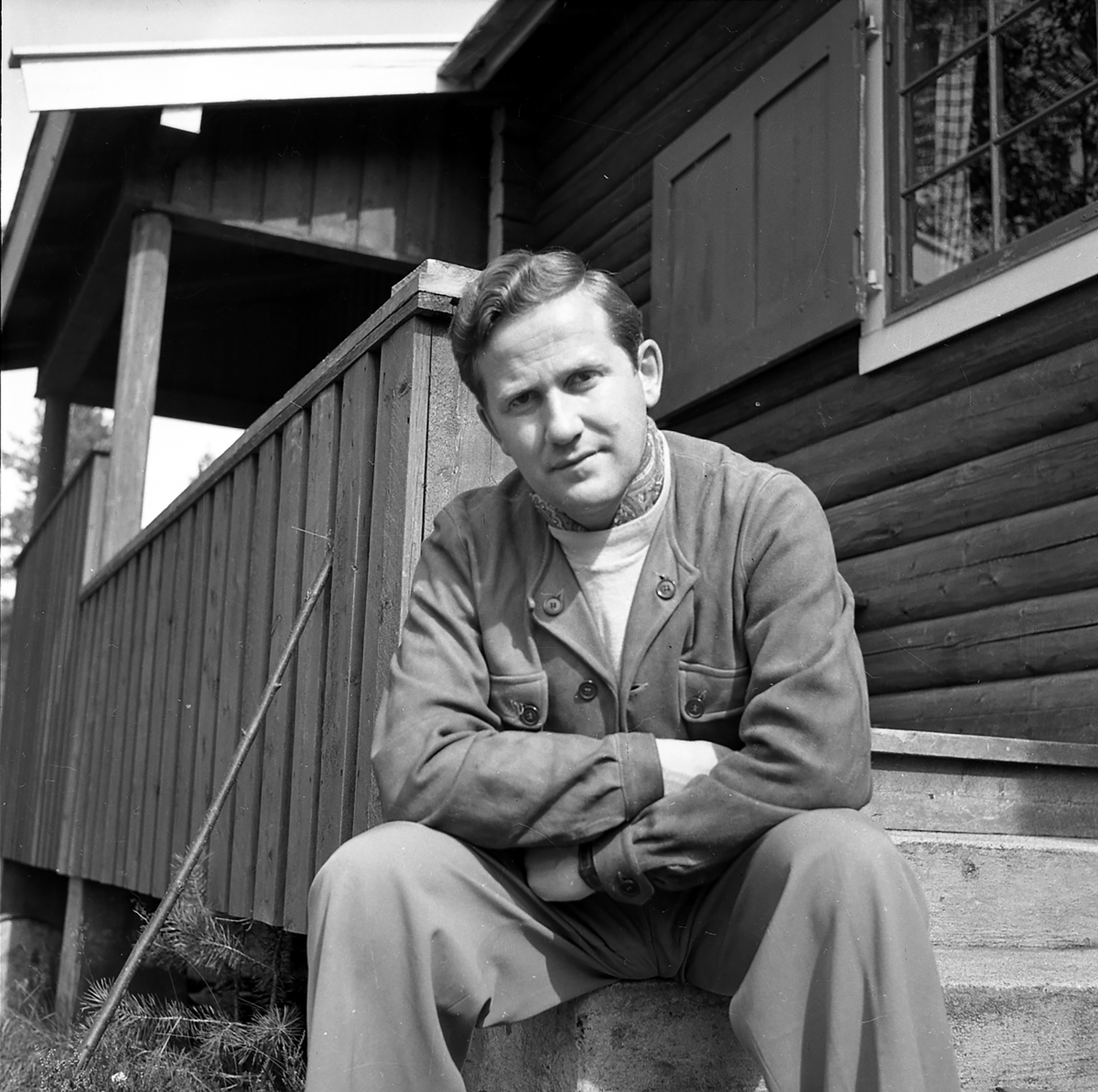 Depicted person: Dagfinn Grønoset – Norwegian journalist